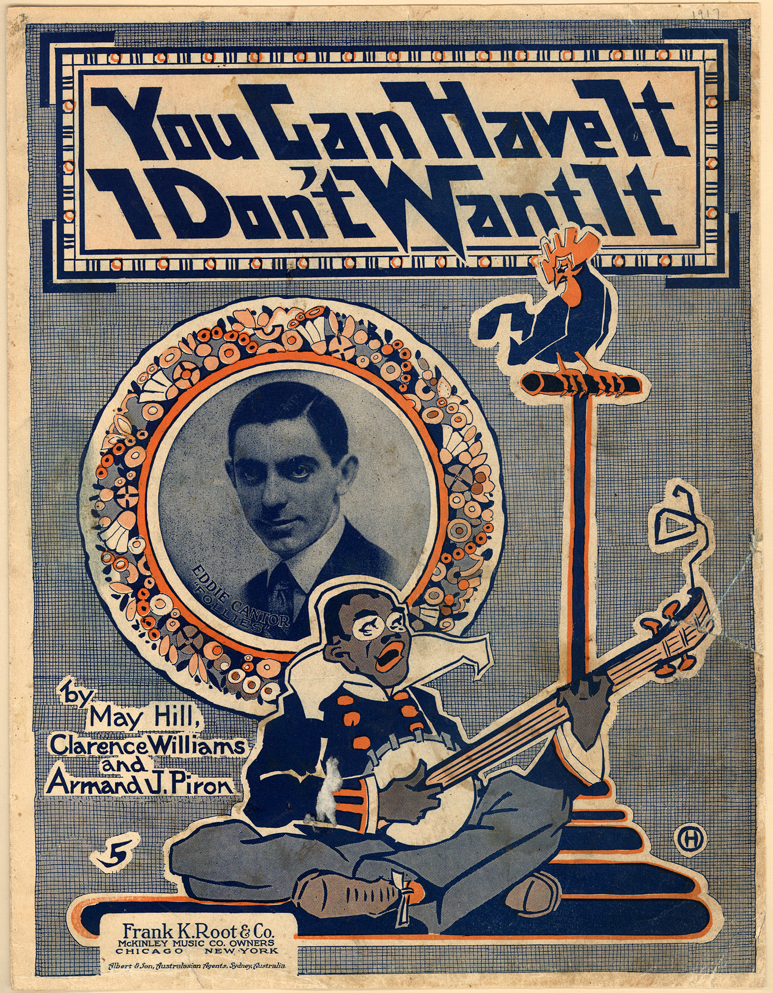 "You Can Have It, I Don't Want It" 1917 sheet music cover. Cover has photo of popular singer Eddie Cantor and a cartoon of a blackface minstrel performer playing banjo.